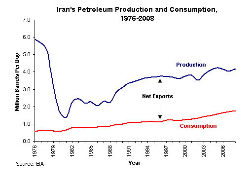 Iran Energy Production and Consumption (1976-2008)